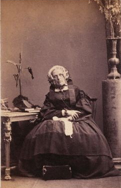 Harriet Martineau (1802-1876), Social philosopher and writer; sister of James Martineau.